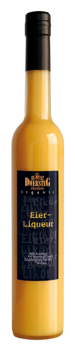 organic advocaat